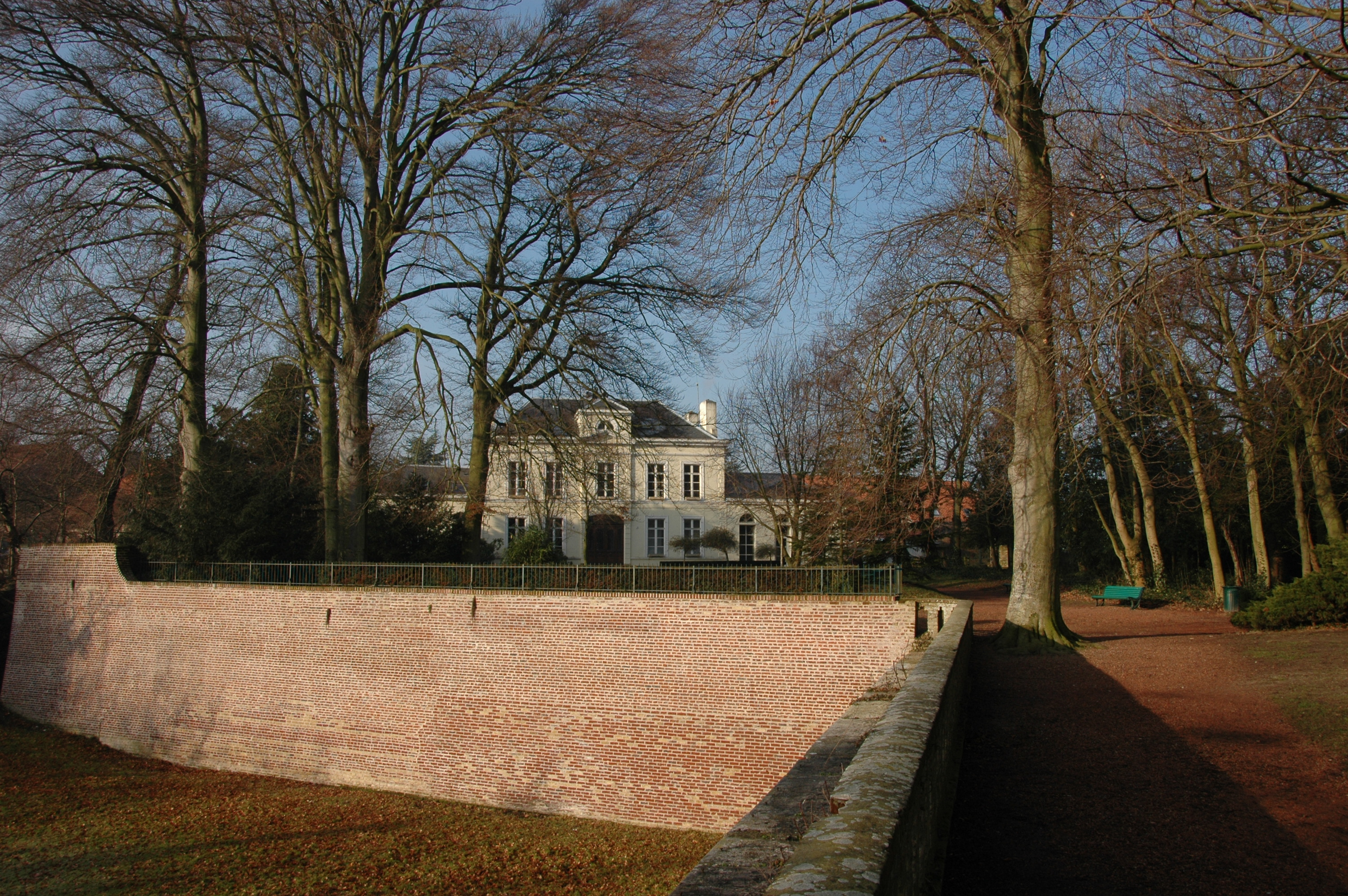 Ardres public park and fortifications